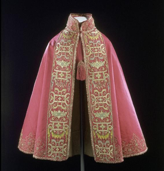 Cloak, 1580-1600 V&A Museum no. 793-1901 Techniques - Red satin, couched and embroidered with silver, silver-gilt and coloured silk threads, trimmed with silver-gilt and silk thread fringe and tassel, and lined with pink linen Artist/designer - Unknown Place - France Dimensions - Length 98.4 cm, Width 196.9 cm (maximum) Object Type - A cloak was the third item of dress in a man's ensemble at the end of the 16th century. It was worn with a doublet and trunk hose. While most cloaks were used for protection, those made of expensive fabrics such as this silk were primarily symbols of wealth and social status. Materials & Making - Cloaks of the late 16th century were usually cut in the shape of a half, three-quarter or complete circle, depending on how much fabric the wearer could afford. The narrow width of the silk, about 56 centimetres, meant that the cloak was constructed of lengths of the fabric, hand sewn together and carefully pieced to avoid any waste. The cost of the dye process was part of the expense of the silk. Red dyes were particularly expensive. This silk may have been coloured using cochineal, a dye obtained from an insect living on the Opuntia cactus that grew in the Spanish territories in Central America. By the end of the 16th century, cochineal was being cultivated and imported to Europe in great quantities. Design & Designing - The embroidery on the cloak is typical of the 1590s. In particular, the metal thread has been couched down in a pattern of interlaced bands known as strapwork. This style of decoration, imitating carved fretwork or bands of leather, originated in France in the 1530s and became popular throughout Northern Europe by the end of the 16th century.